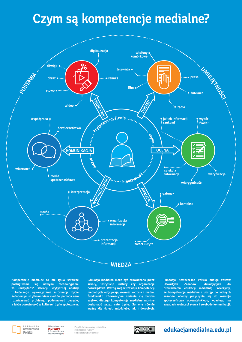 infographics on "media literacy"